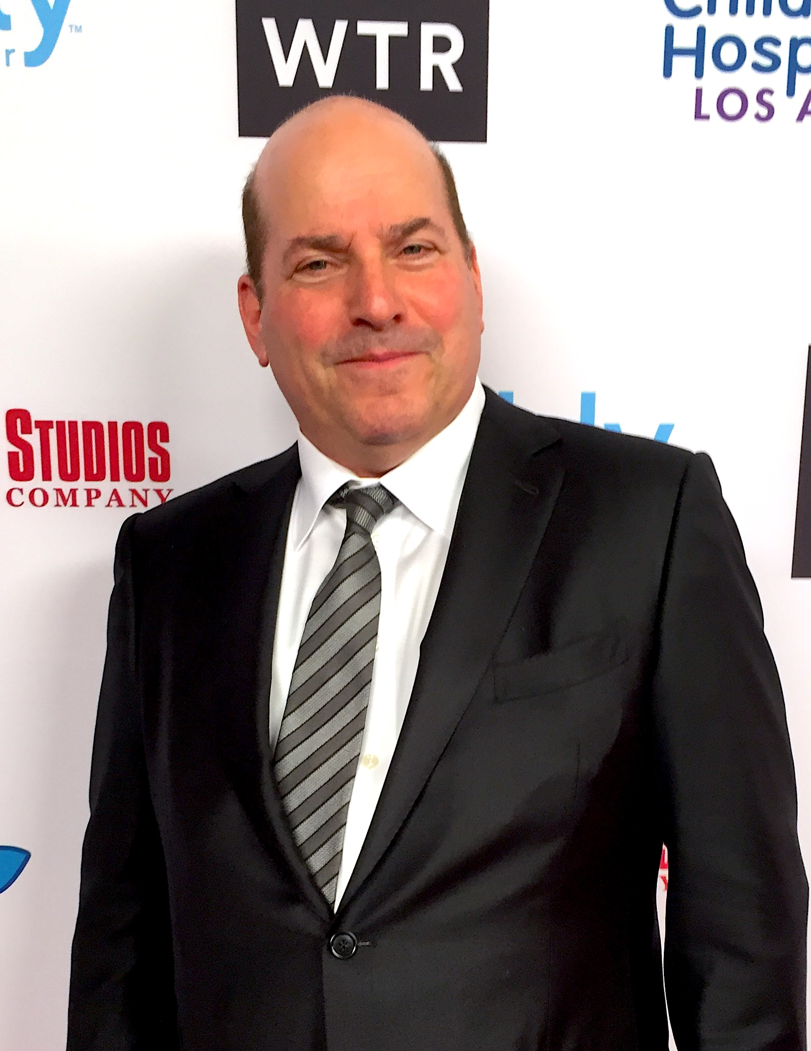 Producer John Jacobs at the Artists First Pre-Emmy Brunch 2018.